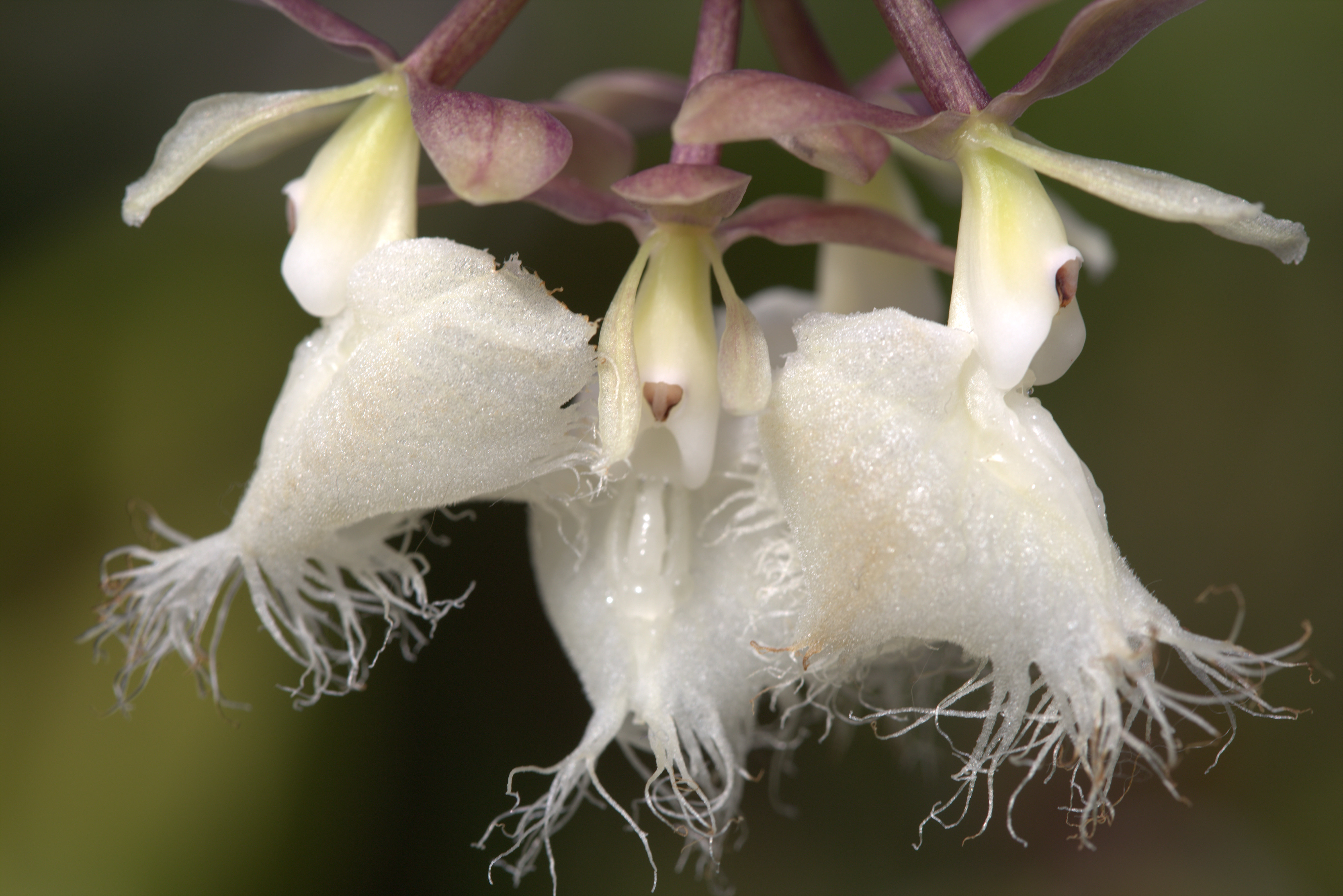 Epidendrum ilense at Gotenburg Botanical Garden in 2015. Plant id: 1995-V0166 p G --Christ., H